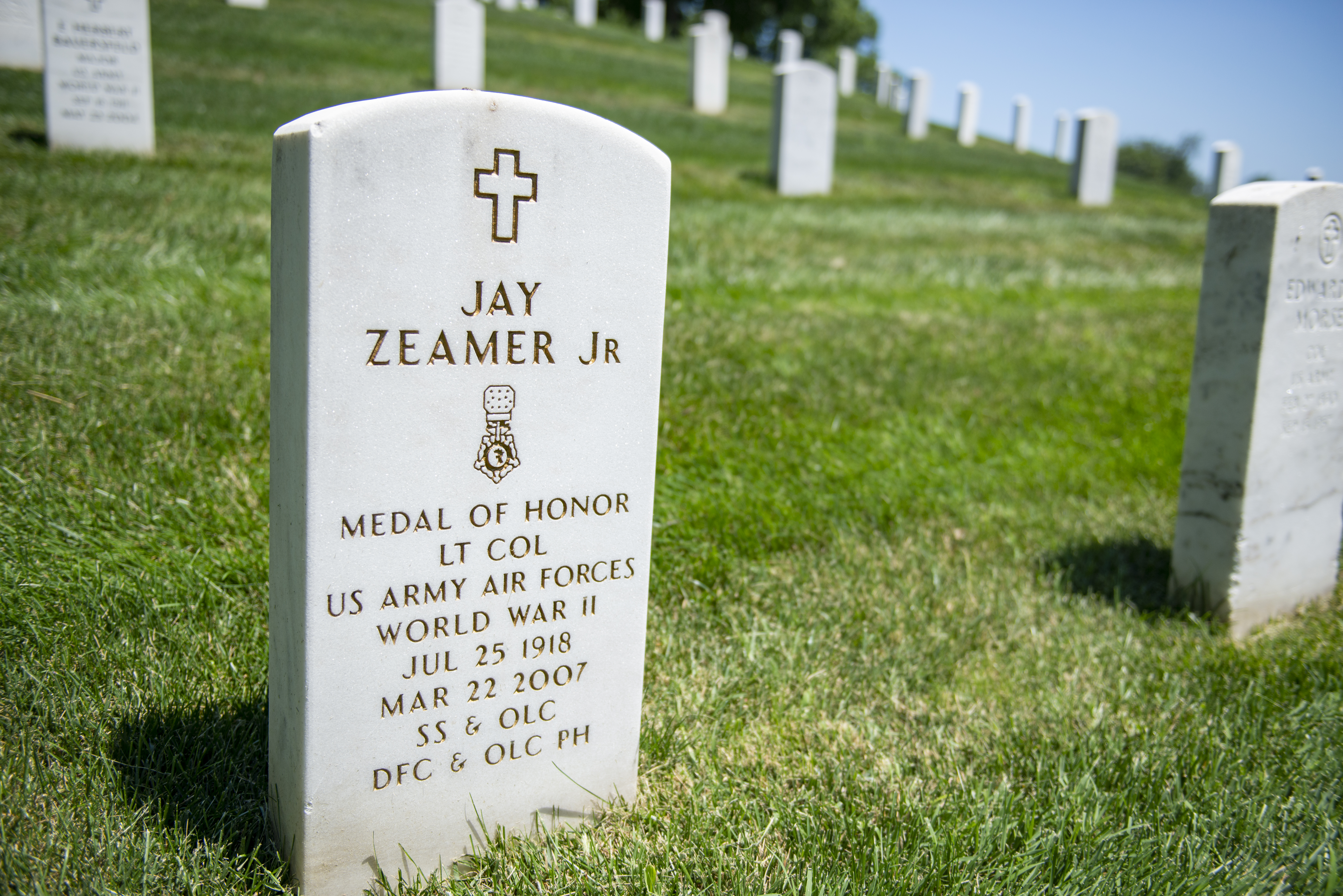 U.S. Army Air Forces Lt. Col. Jay Zeamer Jr. in Section 34 of Arlington National Cemetery, Arlington, Virginia, July 16, 2015. (U.S. Army photo by Rachel Larue / Arlington National Cemetery / released)